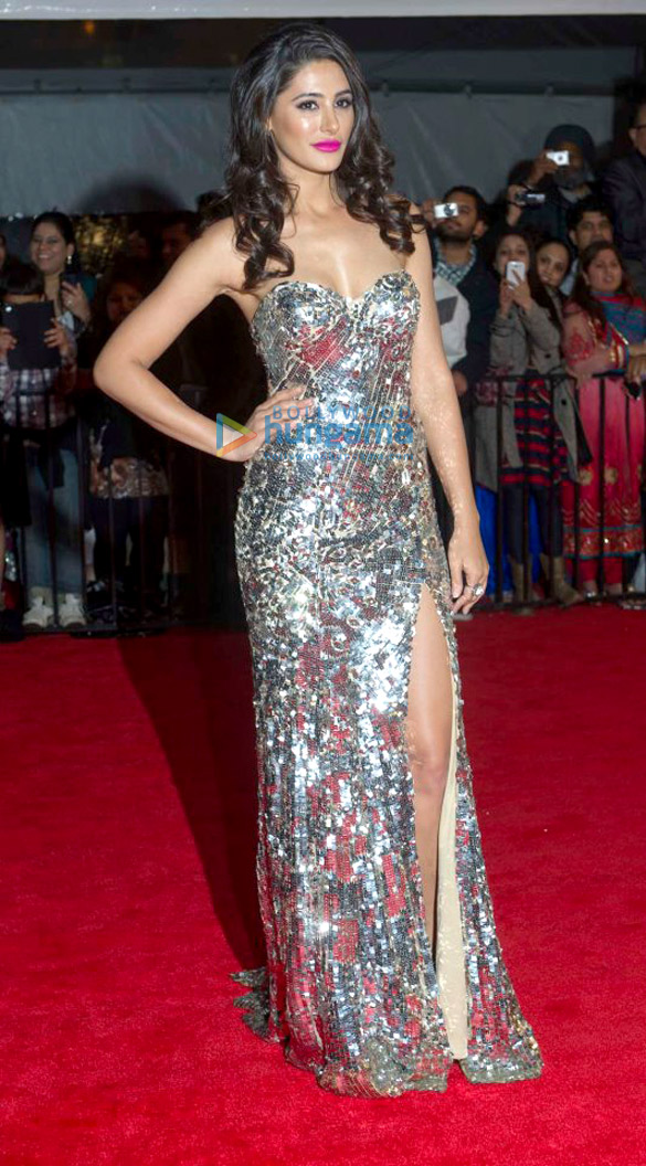 Nargis Fakhri at the Times Of India Film Awards 2013 (TOIFA)